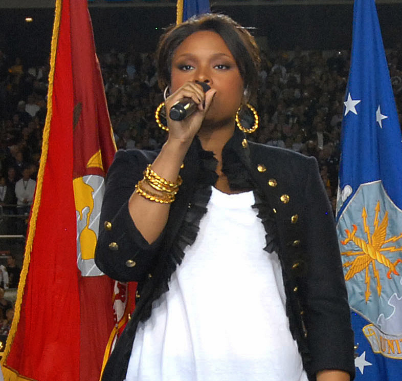 Singer-songwriter Jennifer Hudson sings the national anthem before the start of Super Bowl XLIII, Feb. 1, 2009, at Raymond James Stadium in Tampa, Fla. The Special Operations Command Joint Service Color Guard from MacDill Air Force Base, Fla., presented the colors.